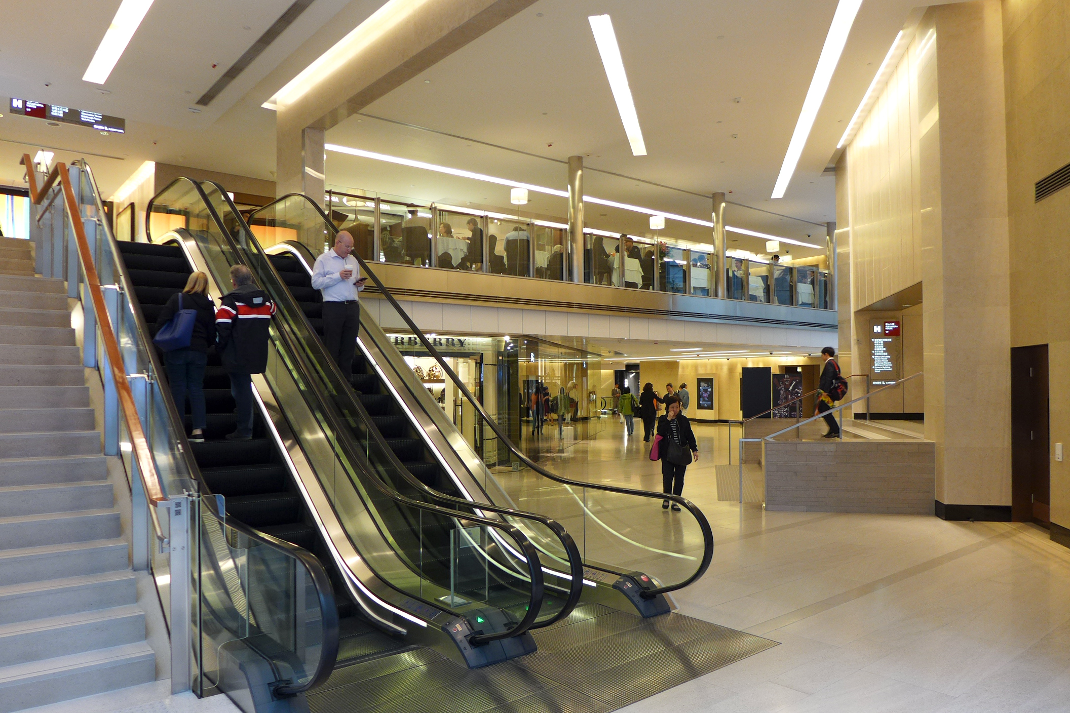 Alexandra House Interior